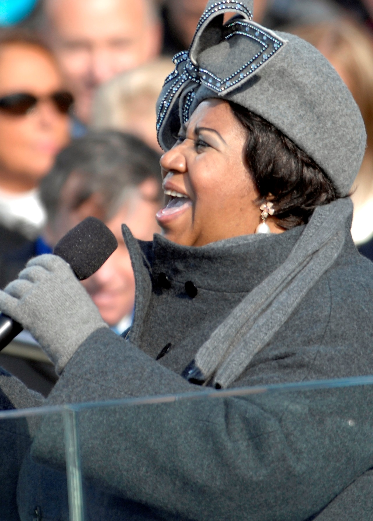 Aretha Franklin sings "My Country 'Tis Of Thee'" at the U.S. Capitol during the 56th presidential inauguration in Washington, D.C., Jan. 20, 2009. // Cropped version of this image.